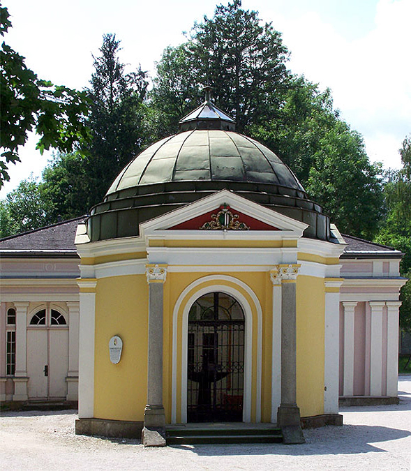 Tassilo-Spring, Pfarrkirchen bei Bad Hall, Upper Austria